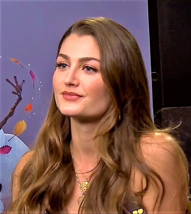 Actress Rachel Matthews. Jason Ritter & Rachel Matthews "TRY" to sing like Idina Menzel song from Frozen 2. by Dulce Osuna.